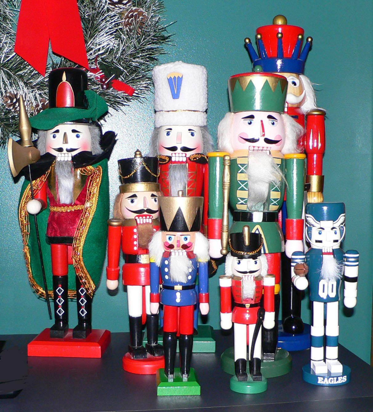 Picture of some nutcrackers. Taken by →Raul654 on December 25, 2004.